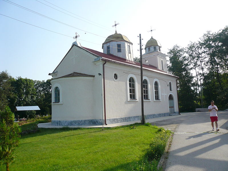 St. Athanasius' Church in the Radiovce.